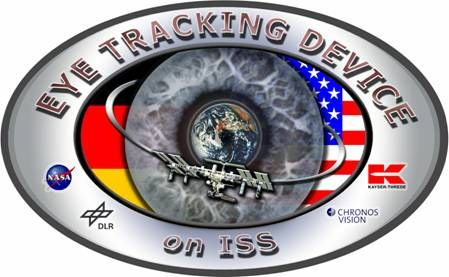 logo for eye tracking on ISS